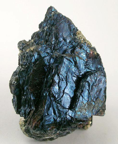 Covellite Locality: East Colusa Mine, Butte, Butte District, Silver Bow County, Montana, USA (Locality at ) Size: 3.4 x 2.7 x 1.6 cm. Classic, old-time Butte covellite. Shimmering, iridescent, peacock-purple covellite blades on starkly contrasting pyrite matrix make for a superb, two-sided specimen from the East Colusa Mine. Ex. Jaime Bird Collection.